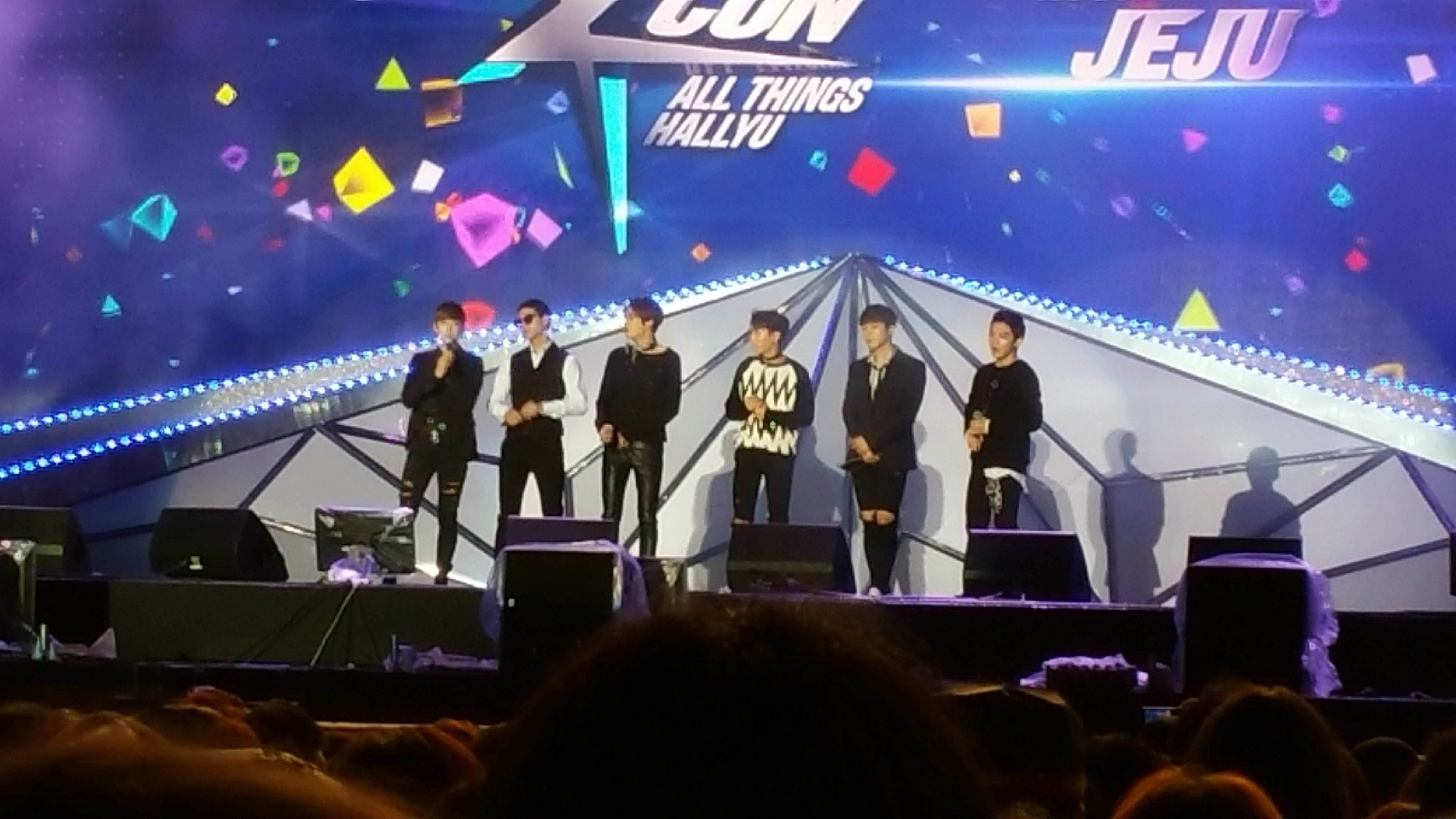 KCON JEJU 2015, stadium concert performers Teen Top, November 7, Jeju Stadium, Jejudo, South Korea.